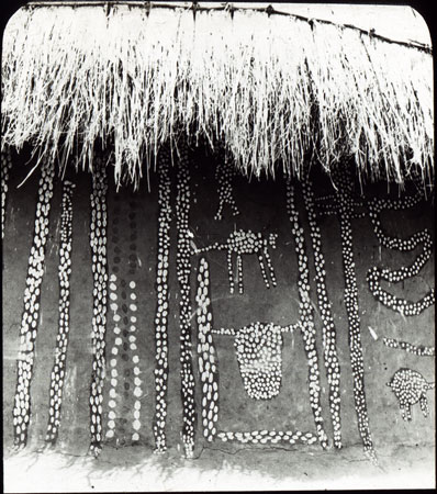 Graphic designs painted on the exterior of the hut in which the Shilluk spirit of Nyikang was deemed to rest. Fenyikang, South Sudan.